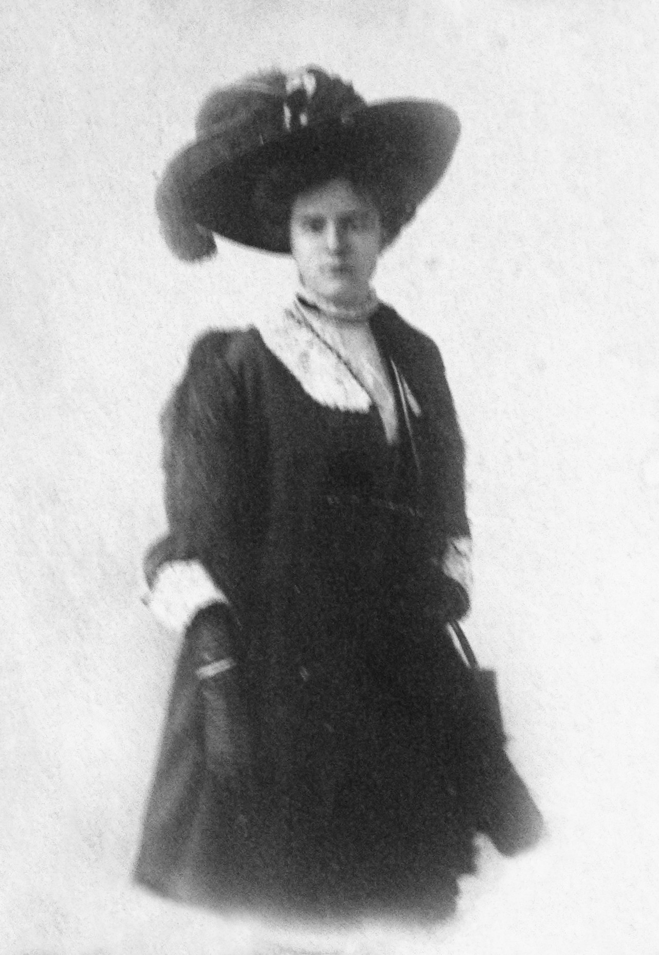 Alice Brown Chittenden photo - oval